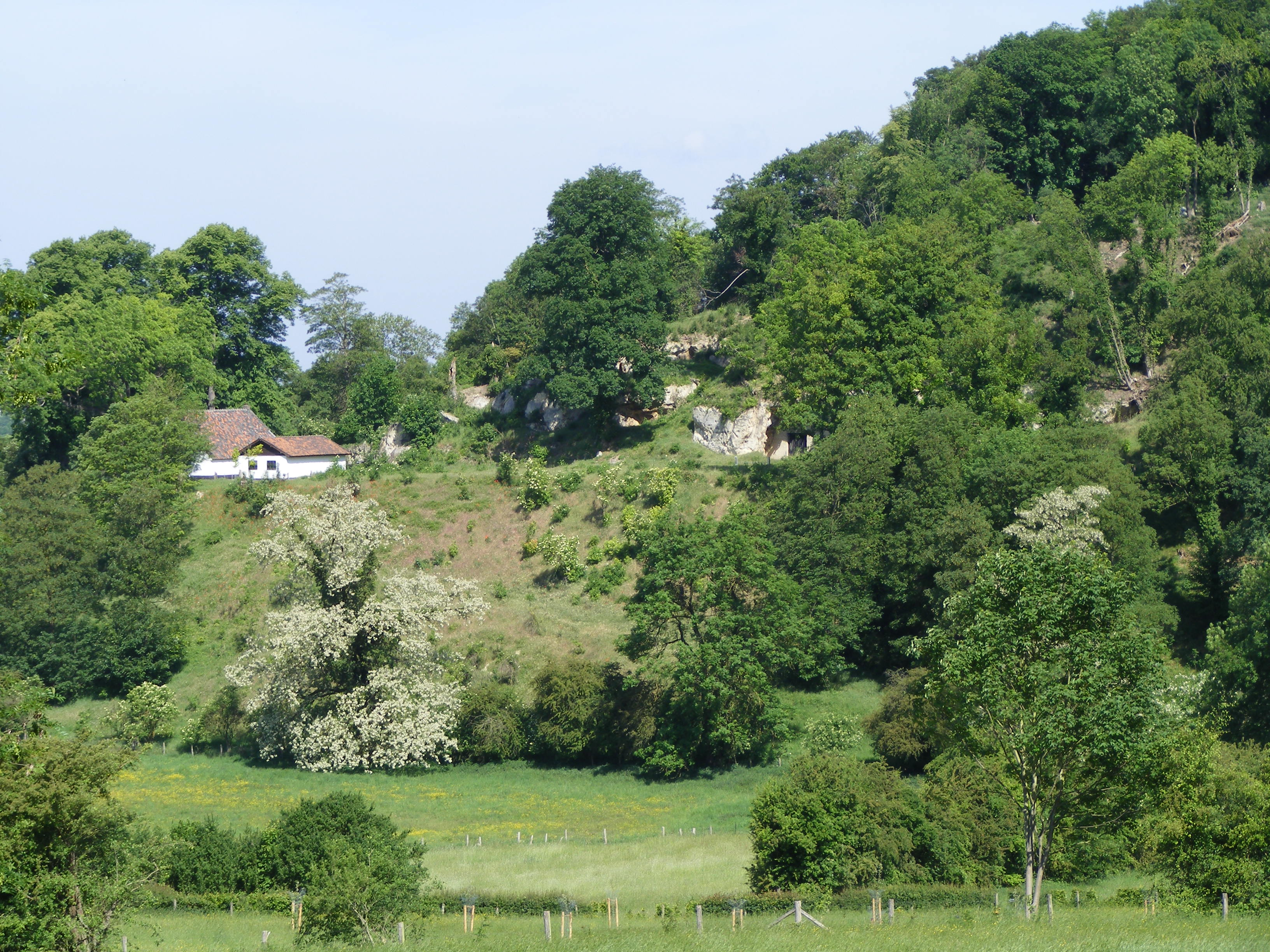 Little white hunting lodge in the forrest named Savelsbos, near Gronsveld, the Netherlands